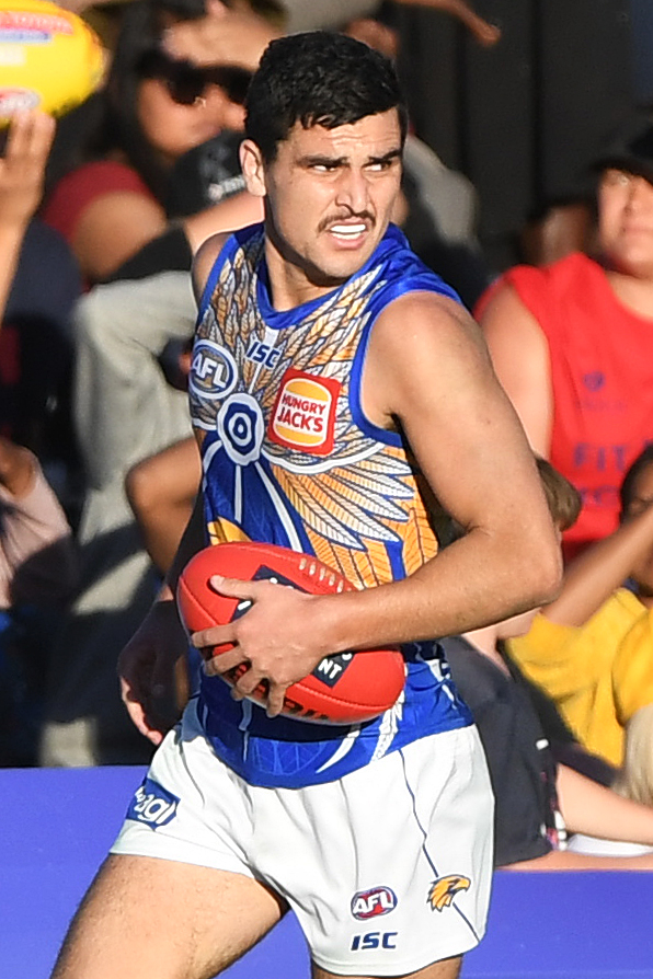 Tom Cole of West Coast during the 2019 AFL round 18 match between Melbourne and West Coast at Traeger Park on Sunday, 21 July 2019 in Alice Springs, Northern Territory.